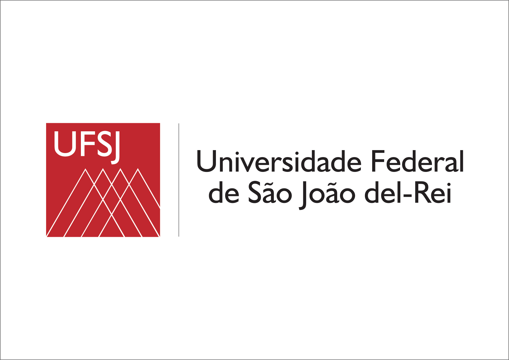 The updated UFSJ logo .